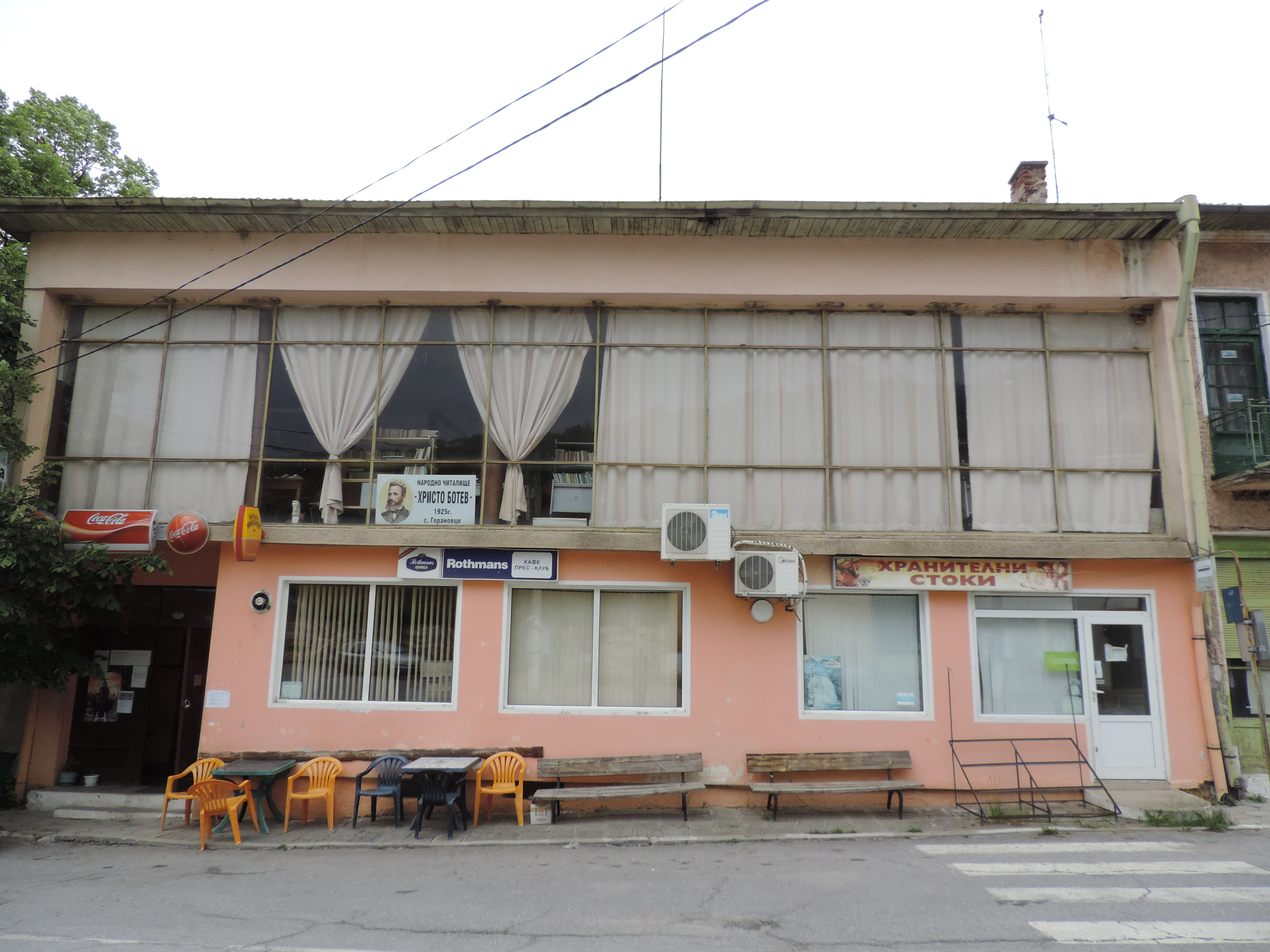 Chitalishte (community centre) "Hristo Botev" in village Goranovtsi, Kyustendil Province, Bulgaria